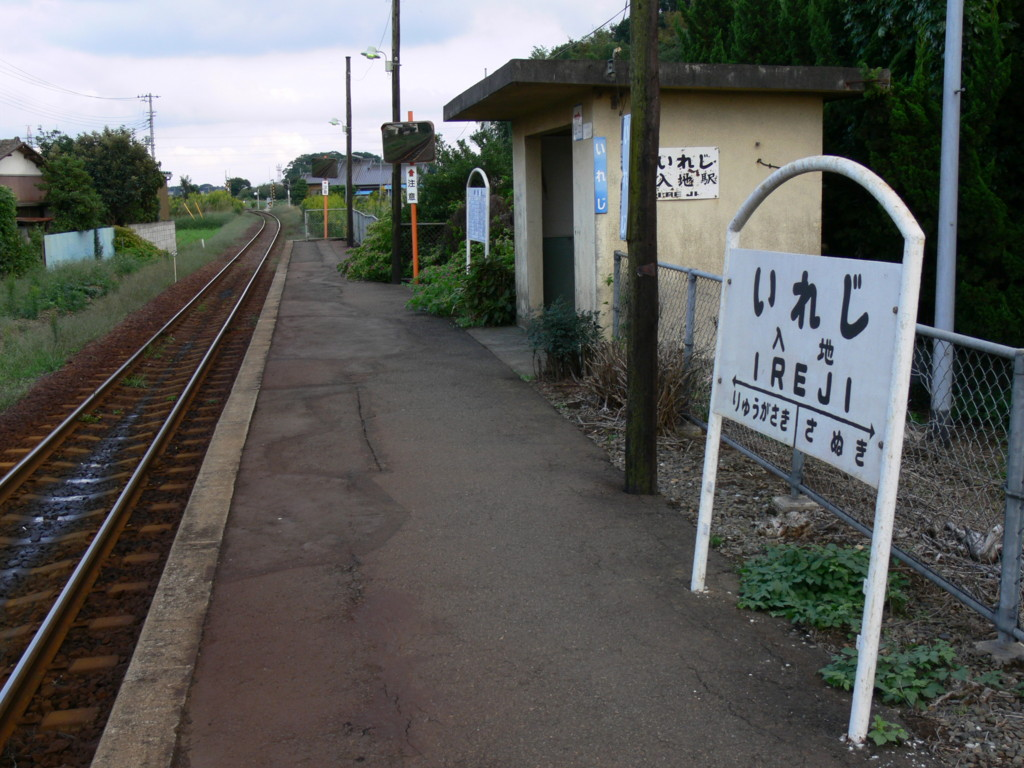 Kanto Railway Ryugasaki Line Ireji station Platform.